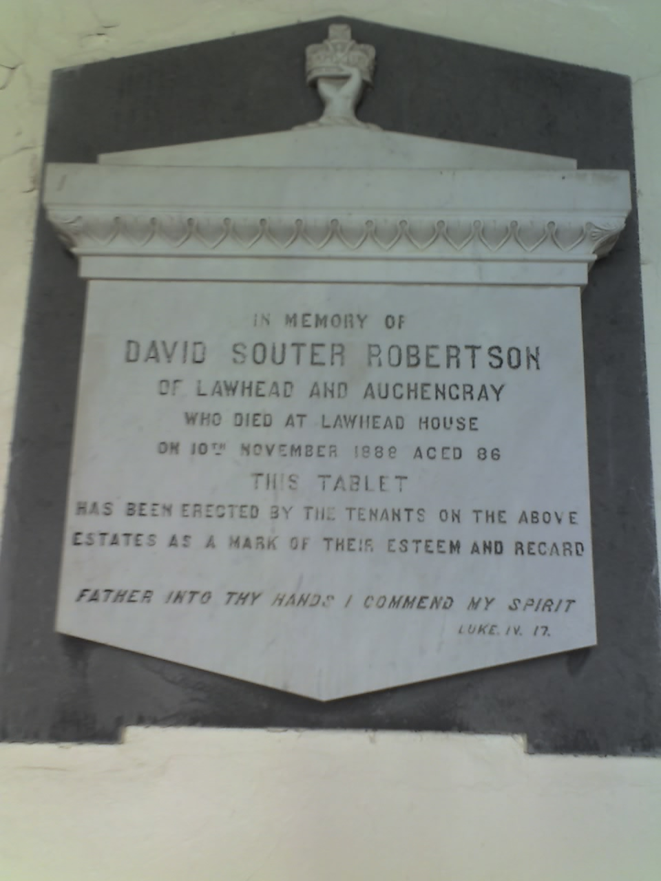 David Souter Robertson memorial plaque in Auchengray Church: In memory of David Souter Robertson of Lawhead and Auchengray who died at Lawhead House on 10th November 1888 aged 86. This tablet has been erected by the tenants on the above estates as a mark of their esteem and regard. Father into thy hands I commend my spirit, Luke. IV. 17.